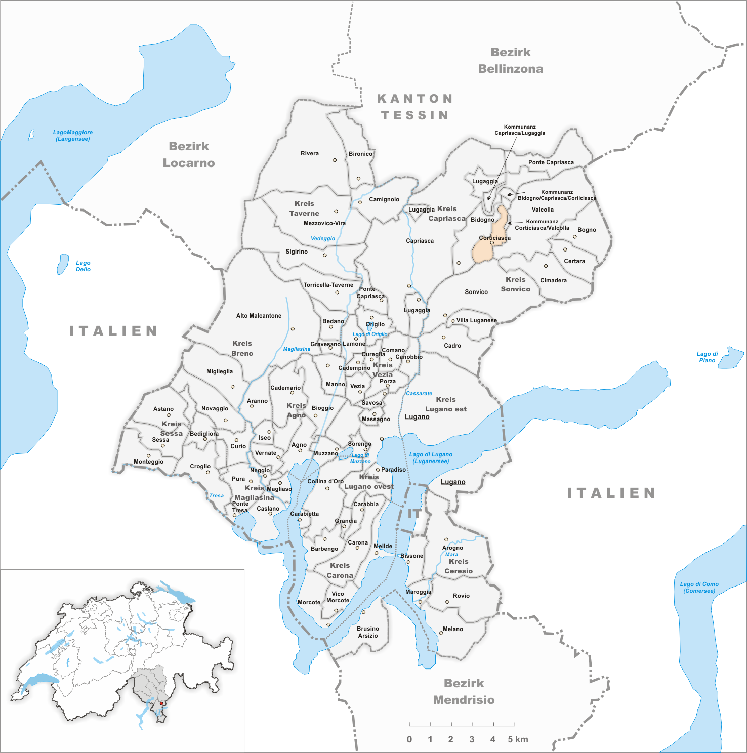 Municipality Corticiasca